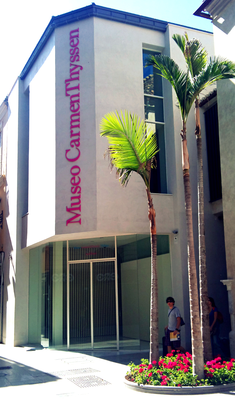 Facade an entrance of the Carmen Thyssen Museum in Málaga